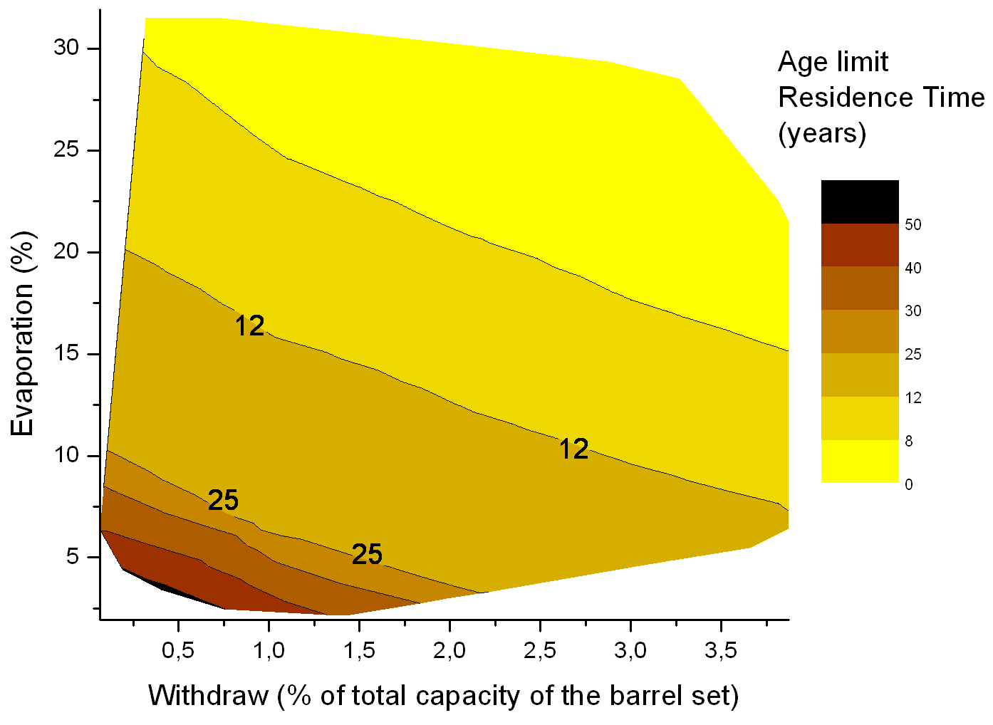 Residence Time limits as a function of the withdrawn and evaporation rate in a barrel set of 5 casks (50, 40, 30, 20, 15 L)